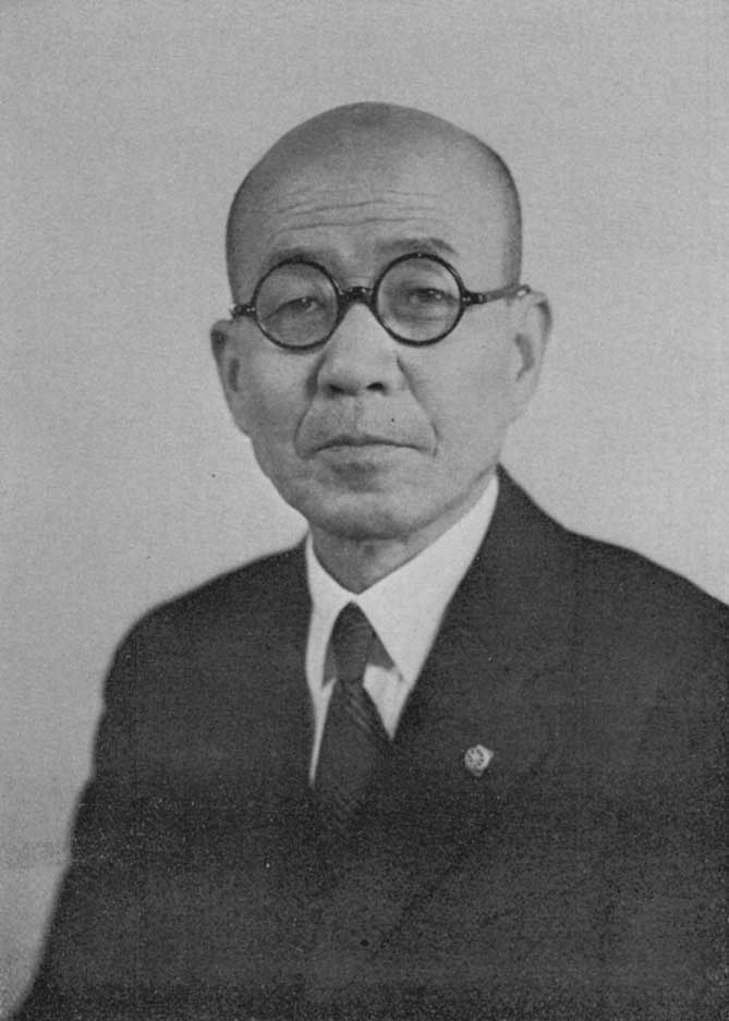 Portrait of professor Jōken Katō at 60 years old.